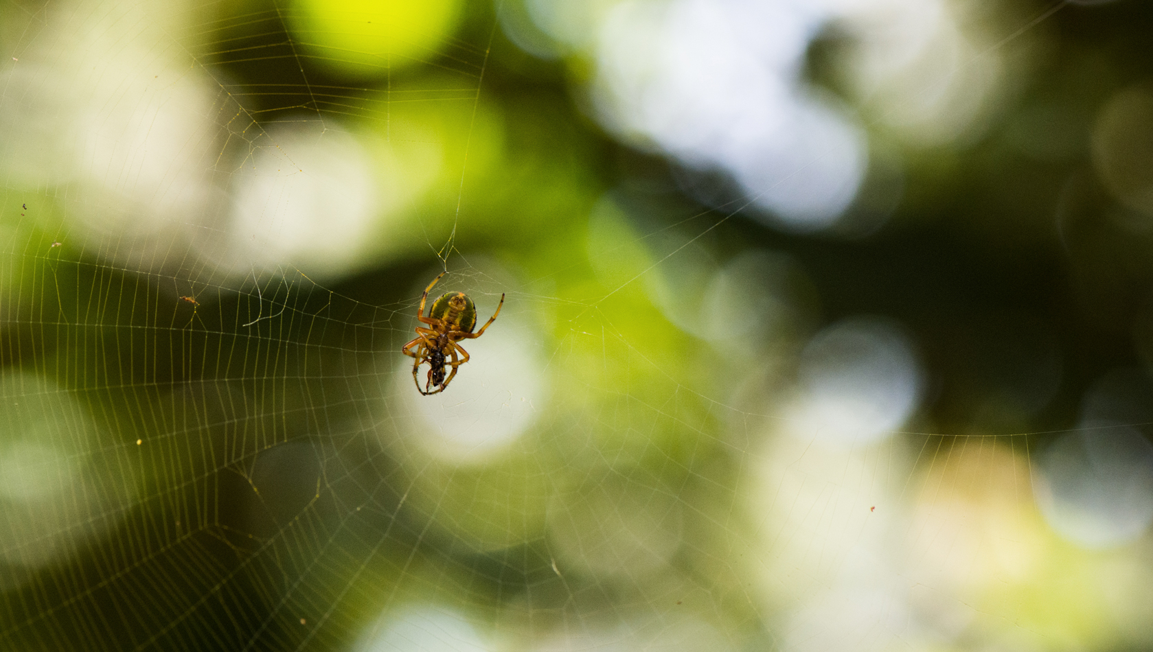 ഇര പിടിക്കുന്ന എട്ടുകാലി